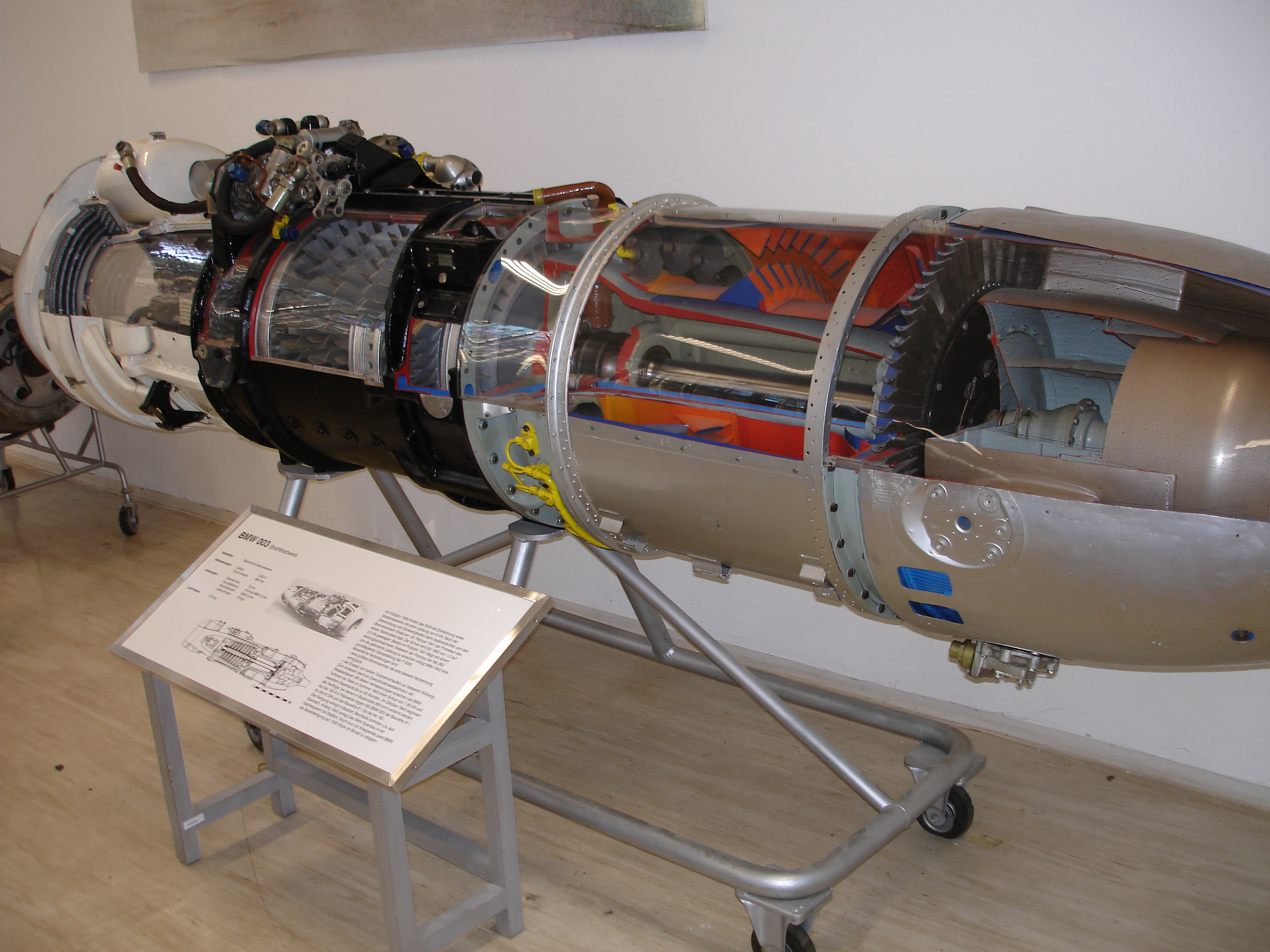 BMW 003 axial-flow turbojet engine produced by BMW AG in Germany during World War II. On display at the Luftwaffenmuseum der Bundeswehr